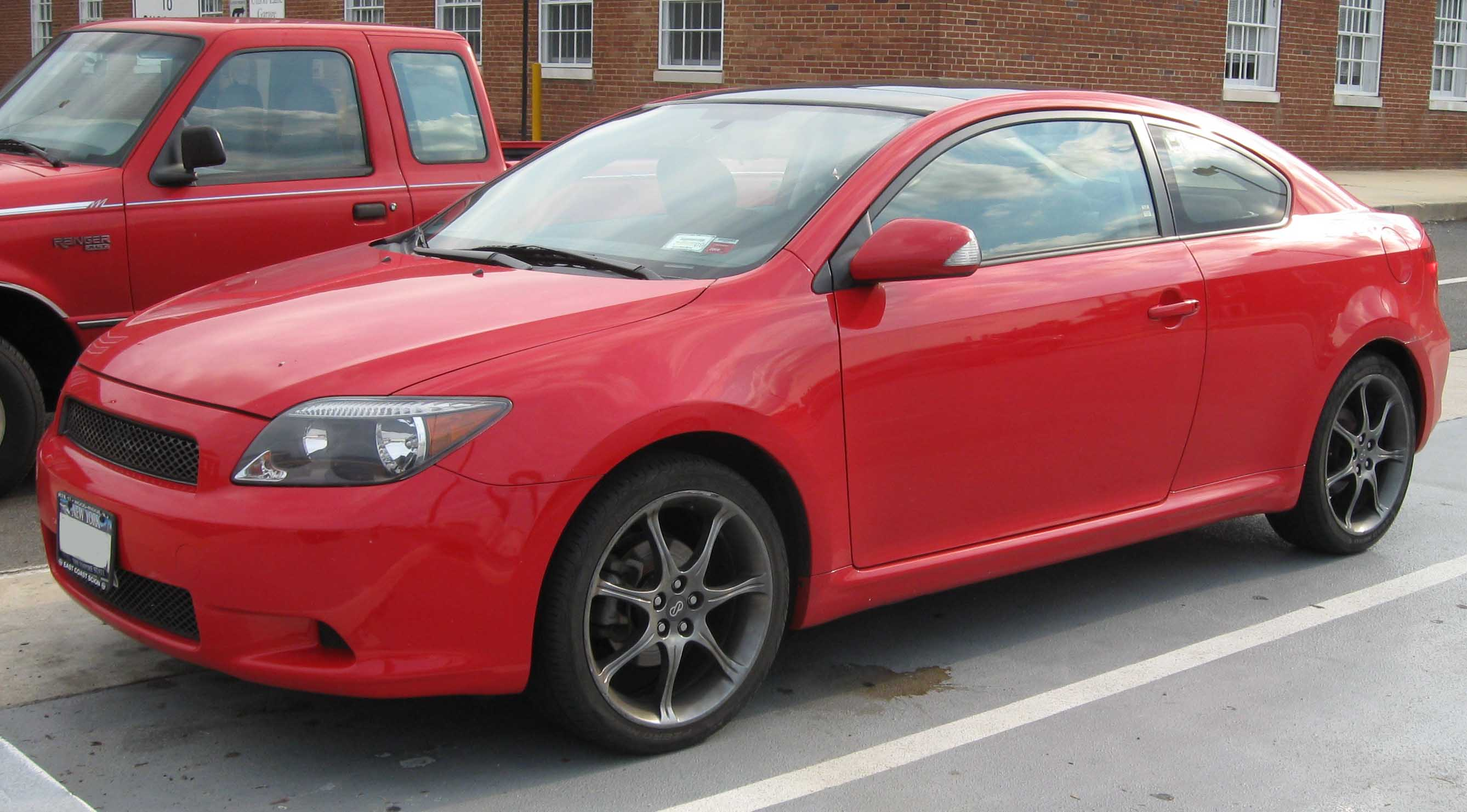 2005 Scion tC photographed in College Park, Maryland, USA.